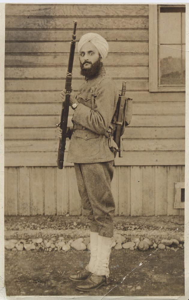 Photograph of Bhagat Singh Thind in his U.S. Army Uniform, from 1918. Thind enlisted in the U.S. Army, and trained at Camp Lewis, Washington.